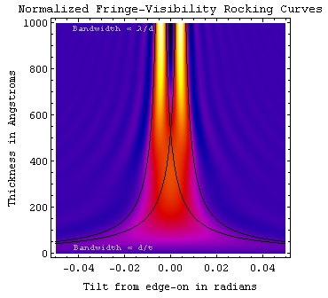 Thickness-normalized plot of bend contour amplitude, and lattice fringe visibility, as a function of tilt from edge-on. This particular plot is a purely kinematic simulation for contrast from lattice planes of spacing d=0.25 nanometres in spherical particles of diameter t with electrons of energy 300 keV and wavelength λ near 1.9 picometres.